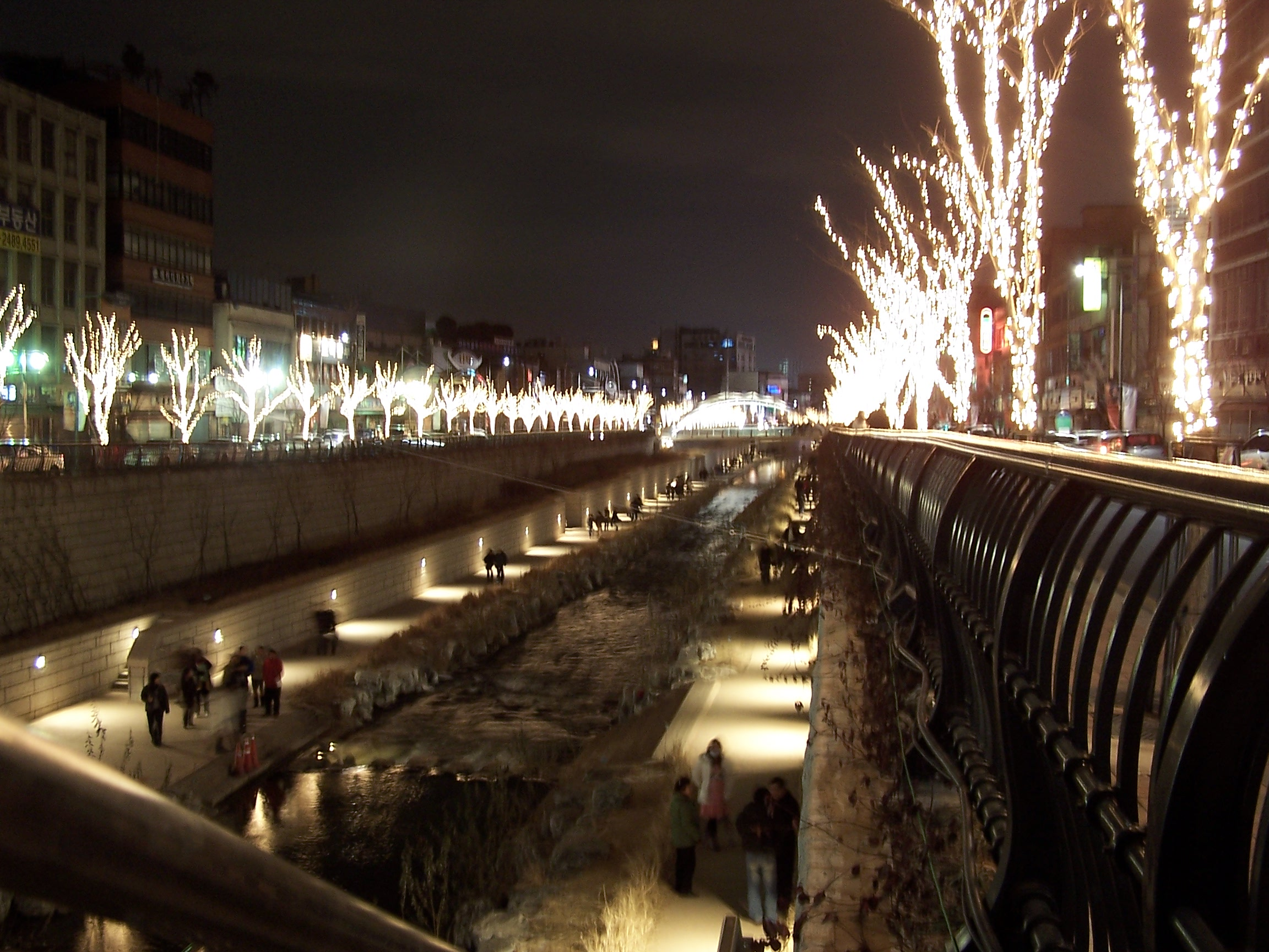 The new Cheonggyecheon river in Seoul. Not long ago, this river was covered by a multilane highway.